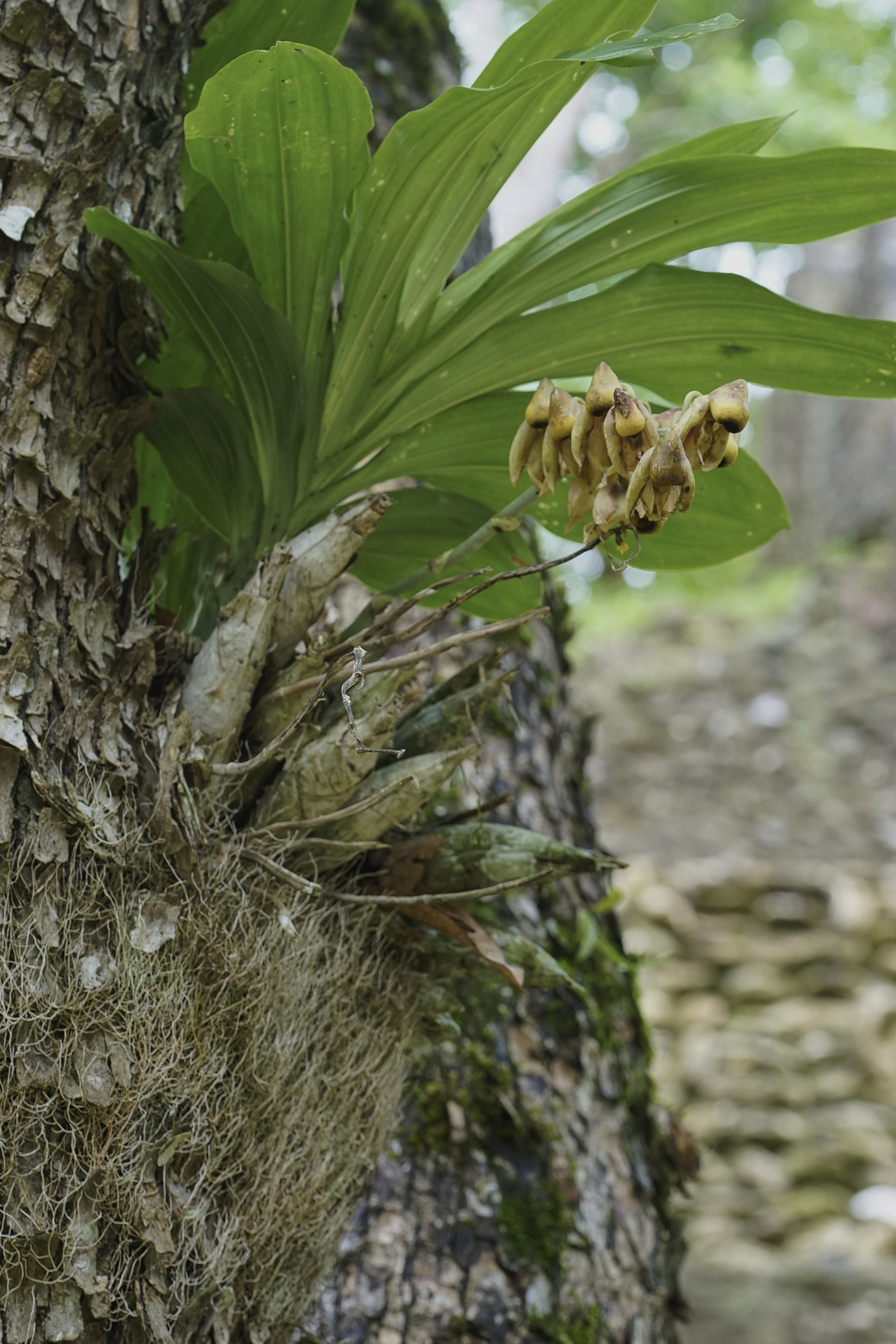 Catasetum integerrimum Epiphyt @ Cahal Pech, San Ignacio, Belize The making of this document was supported by the Community-Budget of Wikimedia Germany.